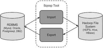 sqoop